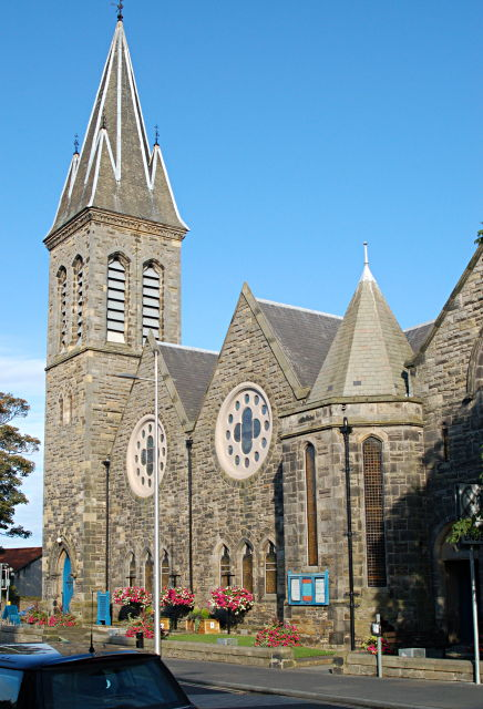 Hope Park Church, St Andrews At the west end of Market Street. Opened for worship in 1865, it is now a Church of Scotland Church.